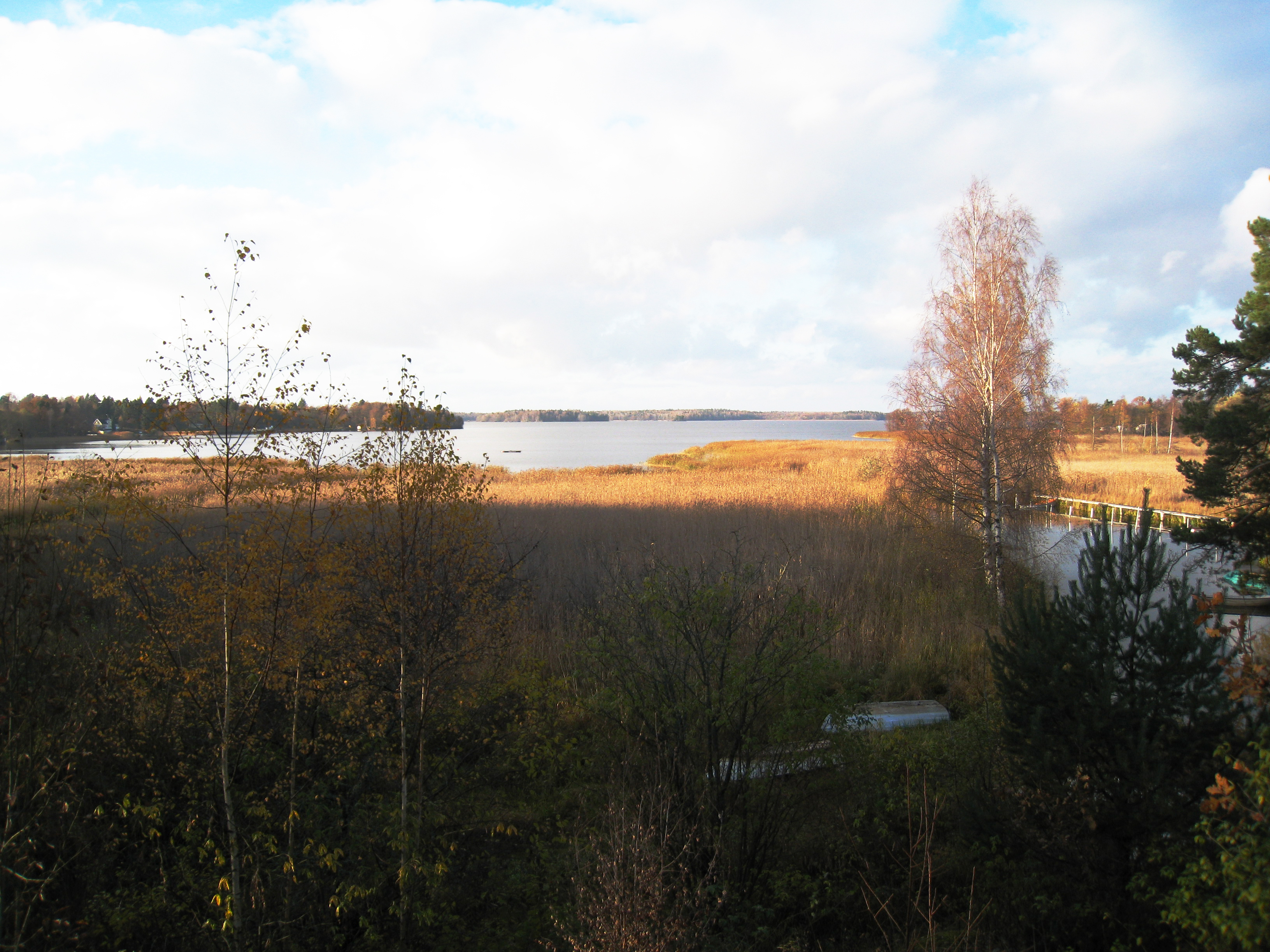 View over Badhusviken, a bay in Lake Mälaren, Sweden